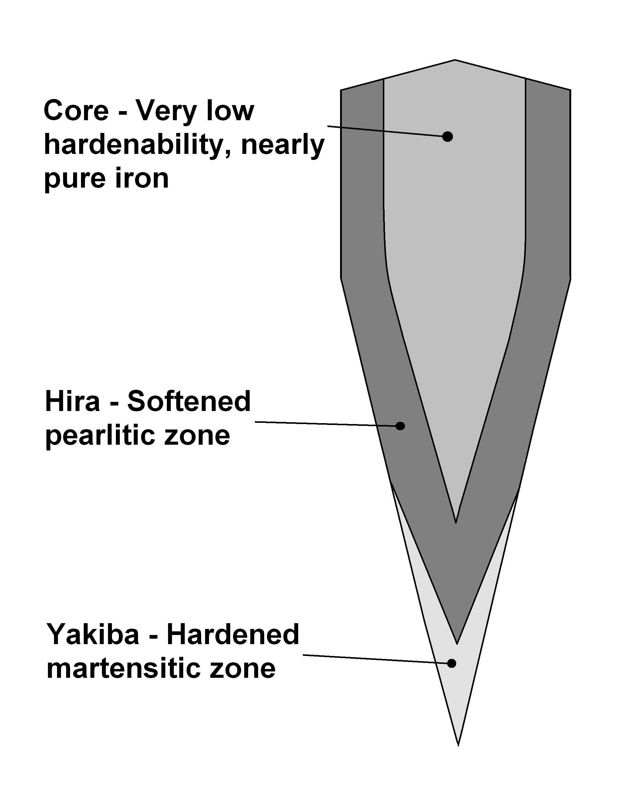 Diagram of a cross section of a katans, showing the typical layout of the different zones of hardness.[1]